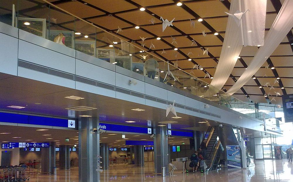 Rzeszow - Jasionka (RZE) International Airport - Poland [terminal in the middle]